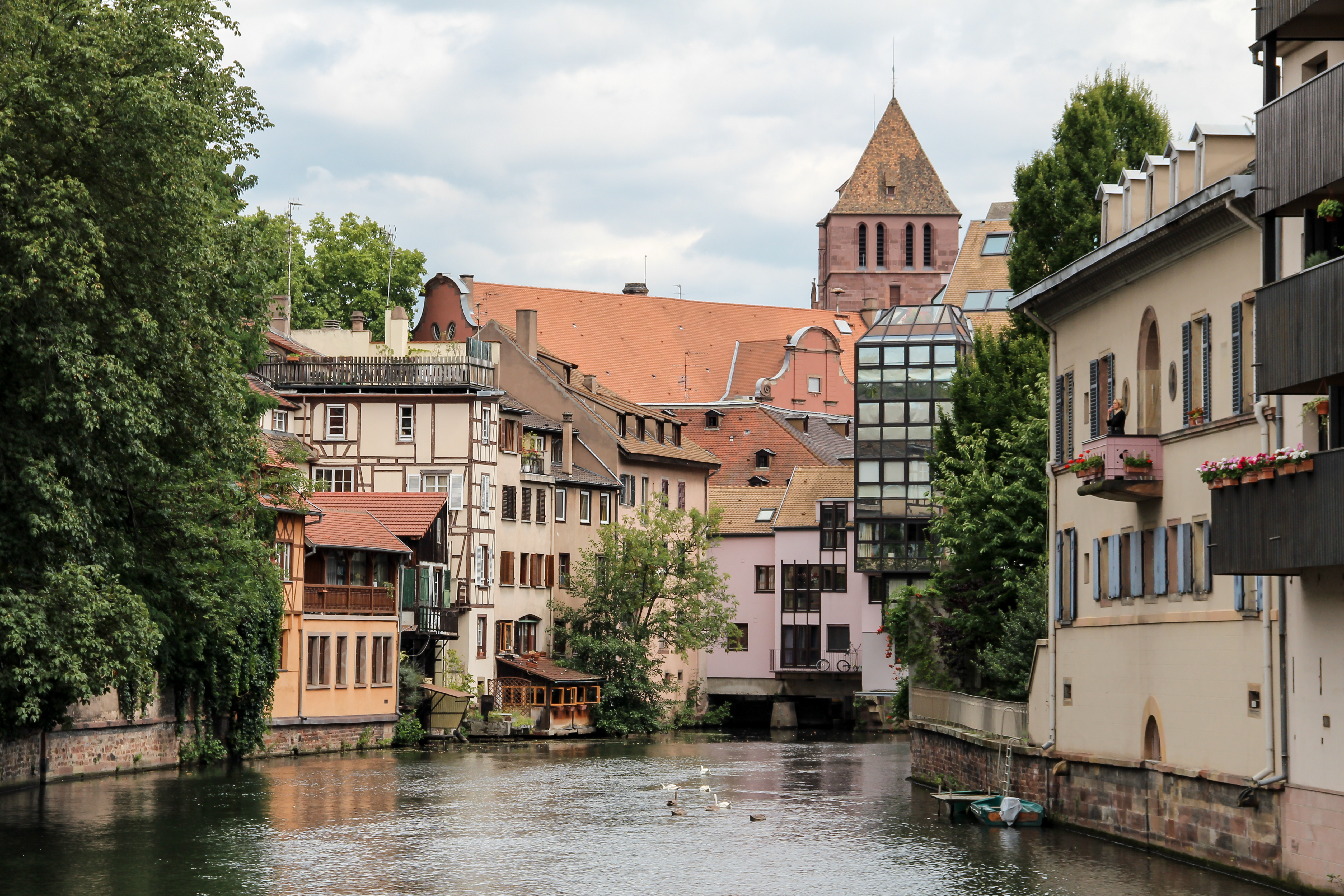 Petite France in Strasbourg, France .